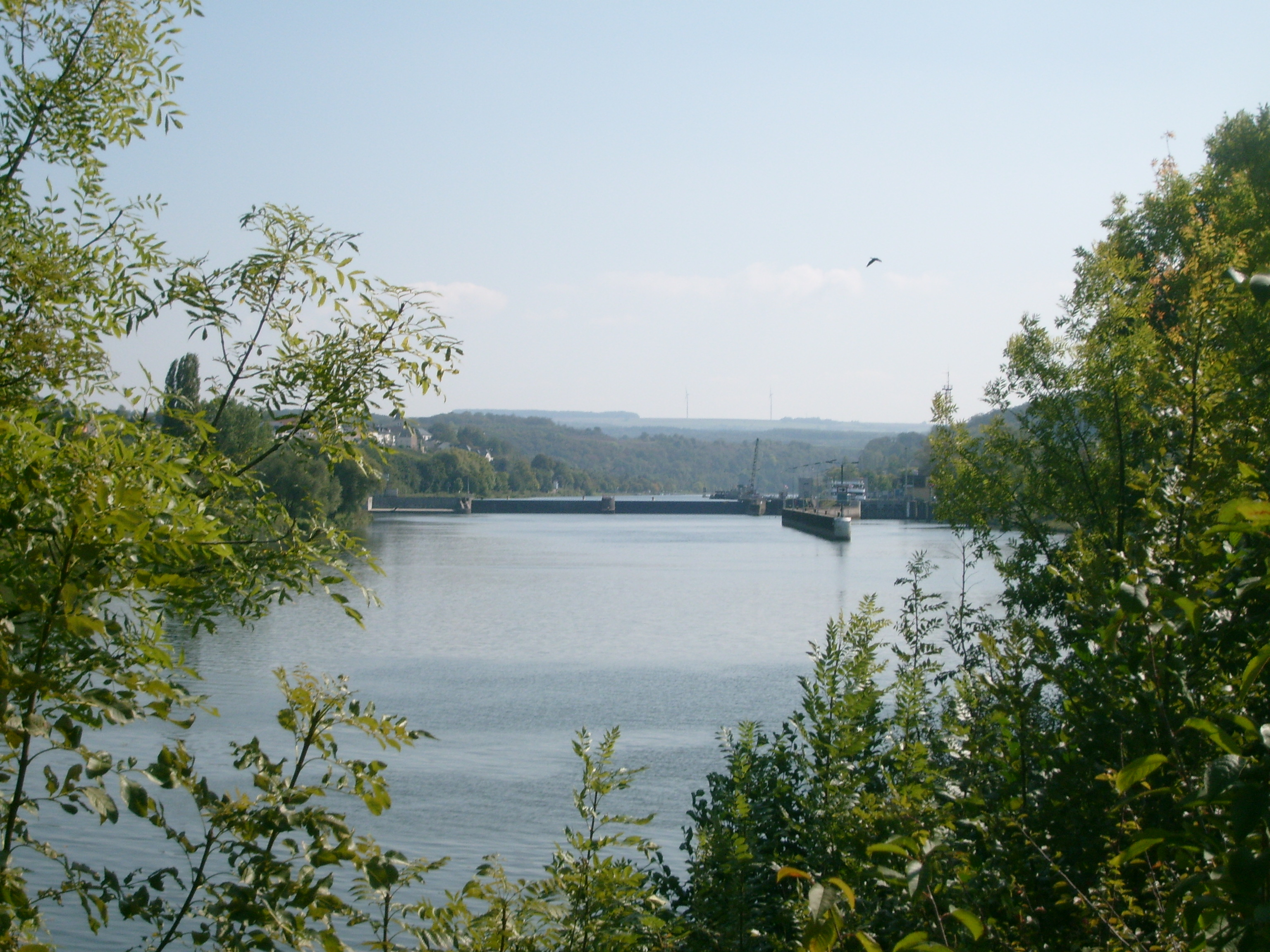 View from Northwest on Lock of Stadtbredimus (Luxembourg) and Palzem (Germany).